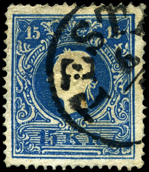 Austria 15-kreuzer stamp of 1858